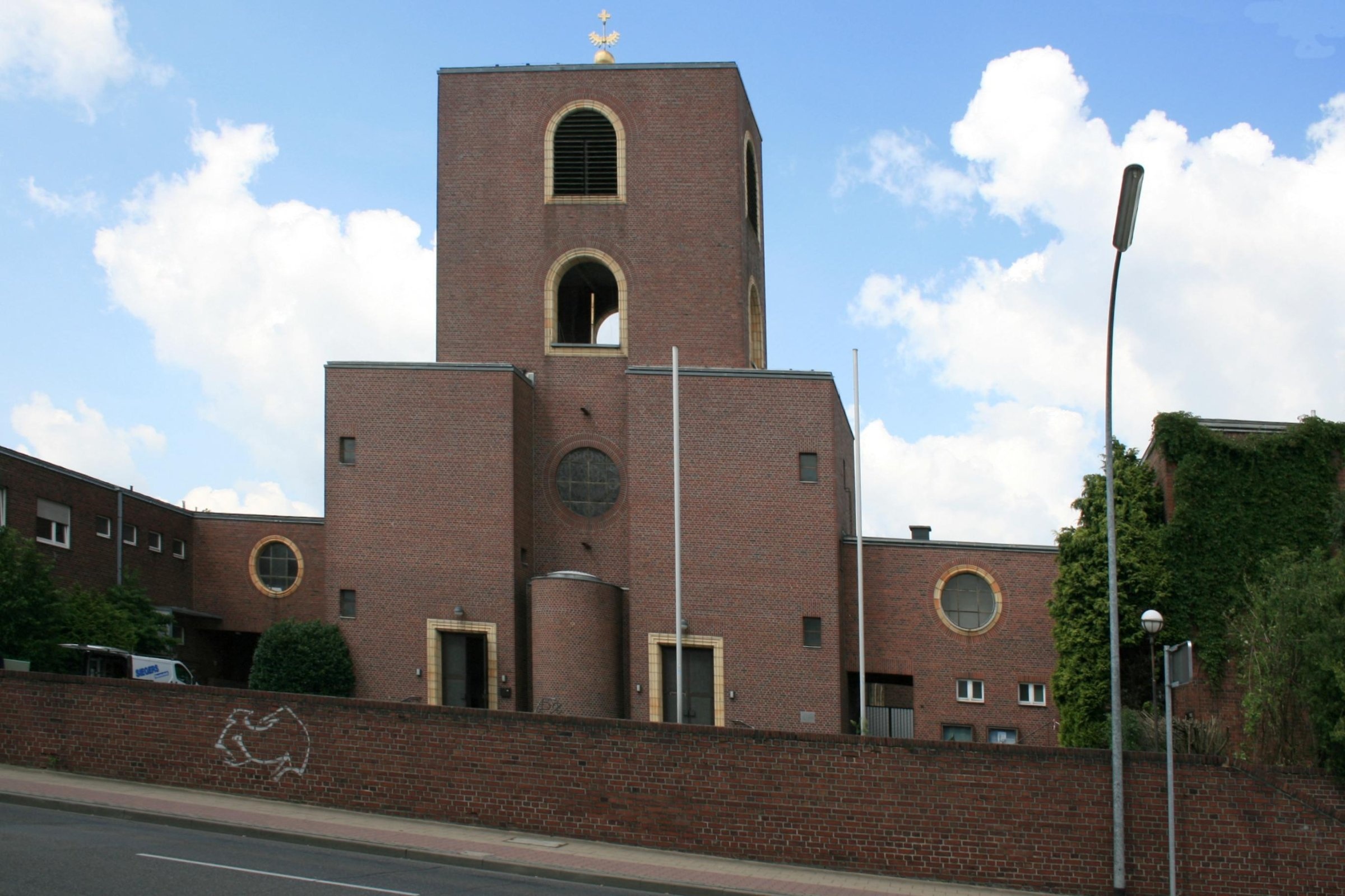 Cultural heritage monument No. N 008 in Mönchengladbach